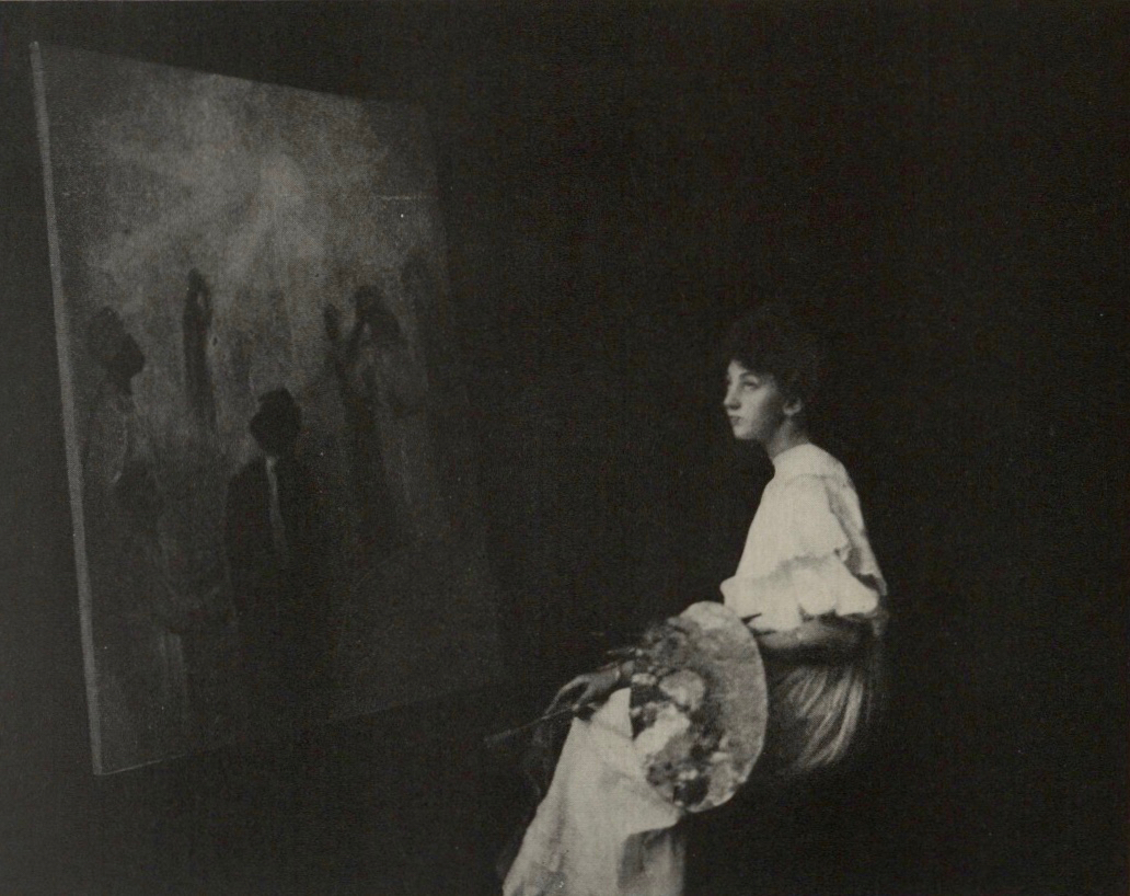 Madge Tennent seated in her Cape Town studio with a painter's palette in hand. The canvas in the photograph is titled "The Light of Asia."